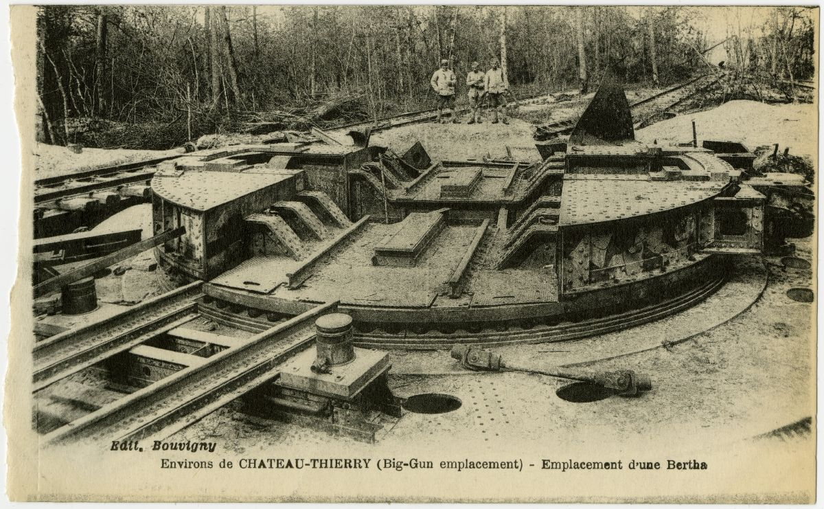 Big-Gun emplacement near Château-Thierry - in fact one of the infamous Paris Gun, installed in Val-Chrétien woods, in Bruyères-sur-Fère, France.